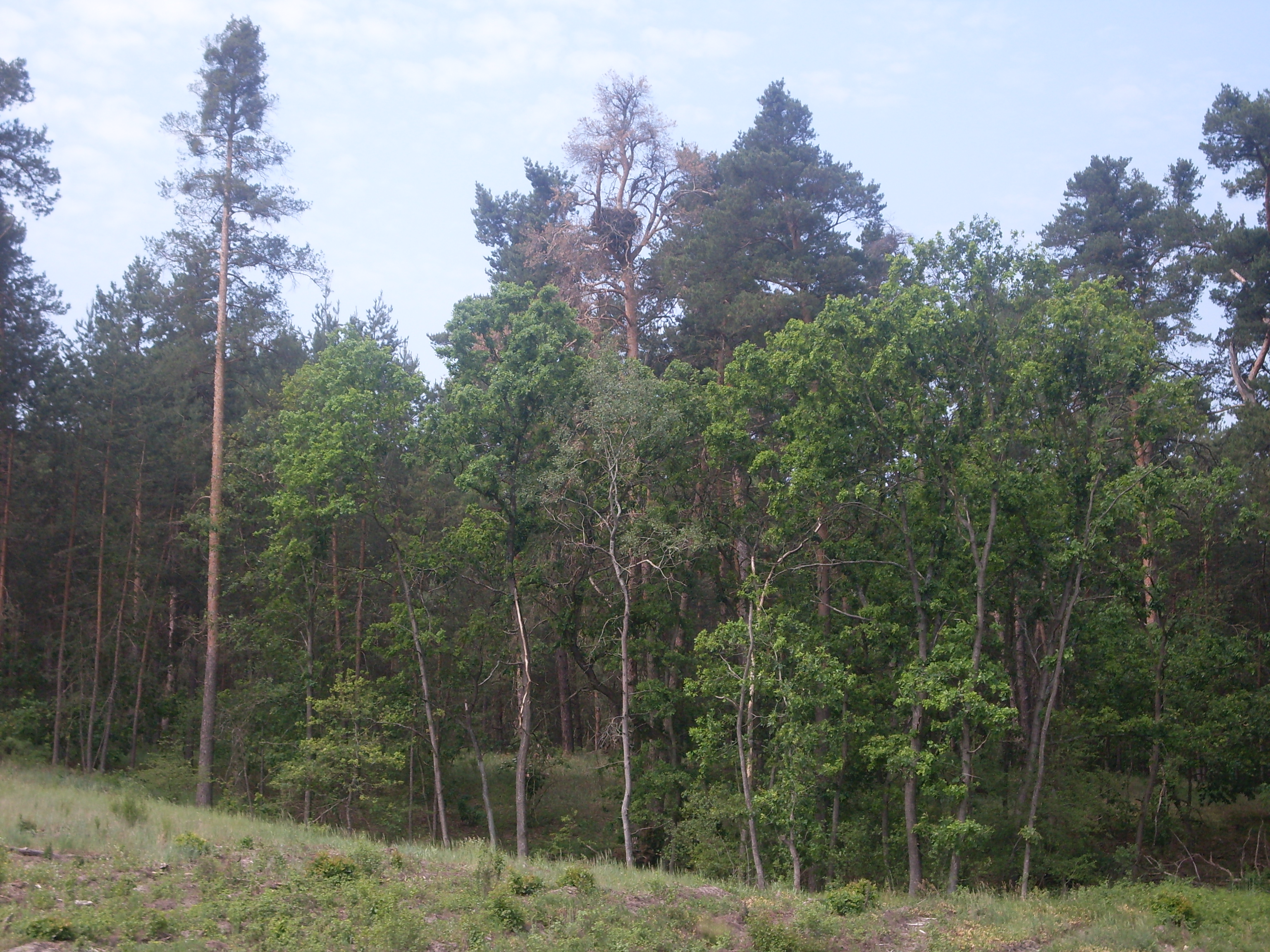 A nest of the White-tailed Eagle (Haliaeetus albicilla) in Cherkasy region, Ukraine near a clearing